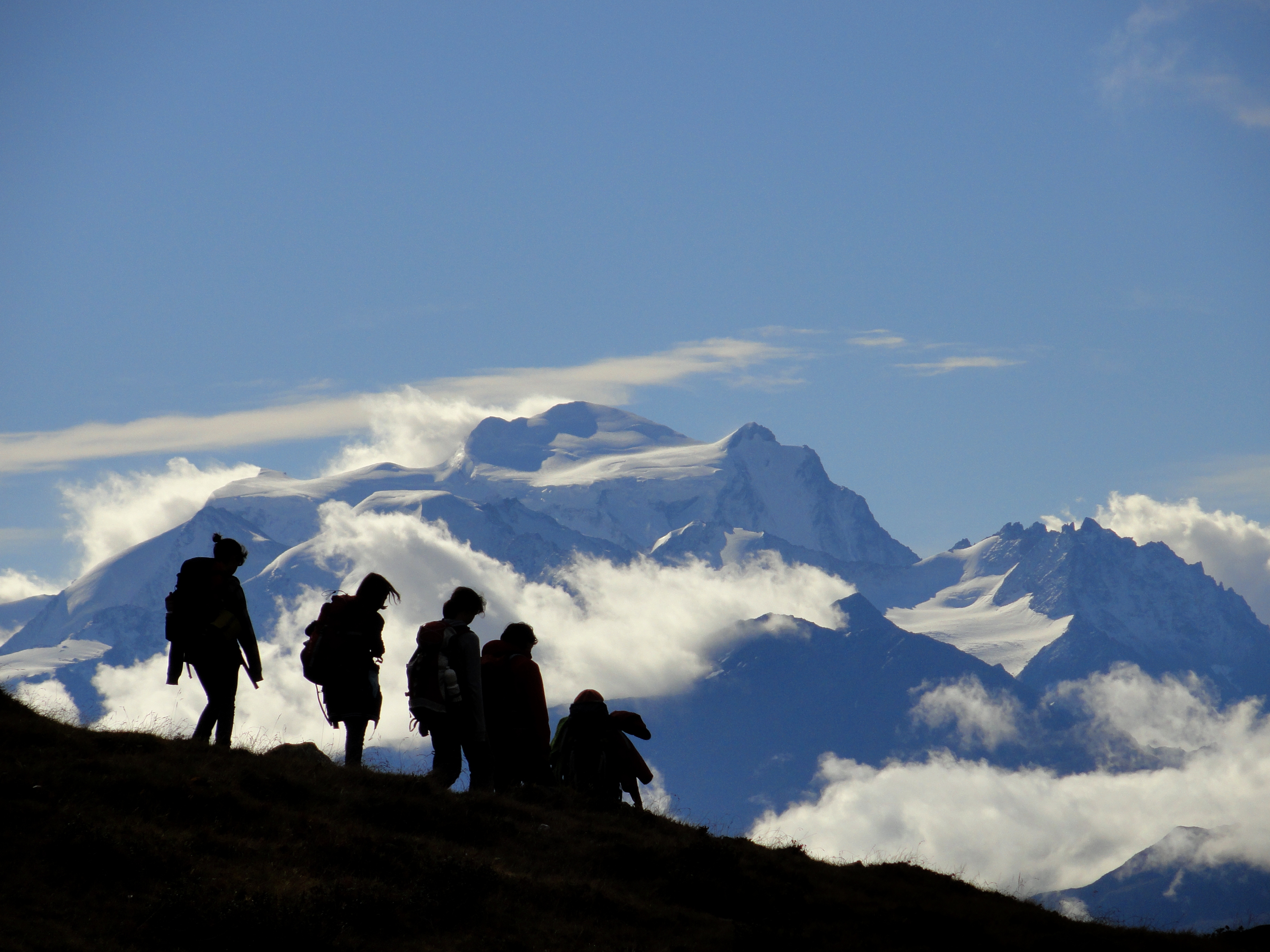 Grand-Combin from the region of Sorniot, on top of Fully